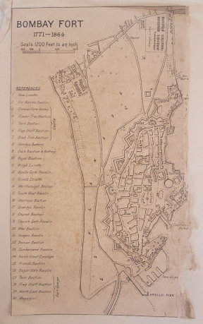 Antique map print showing the plan for Bombay fort dated from 1771-1864 showing locations of key features on the fort during that era.